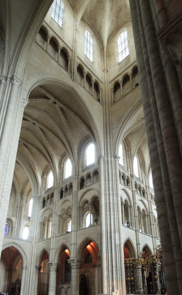 Laon cathedral crossing